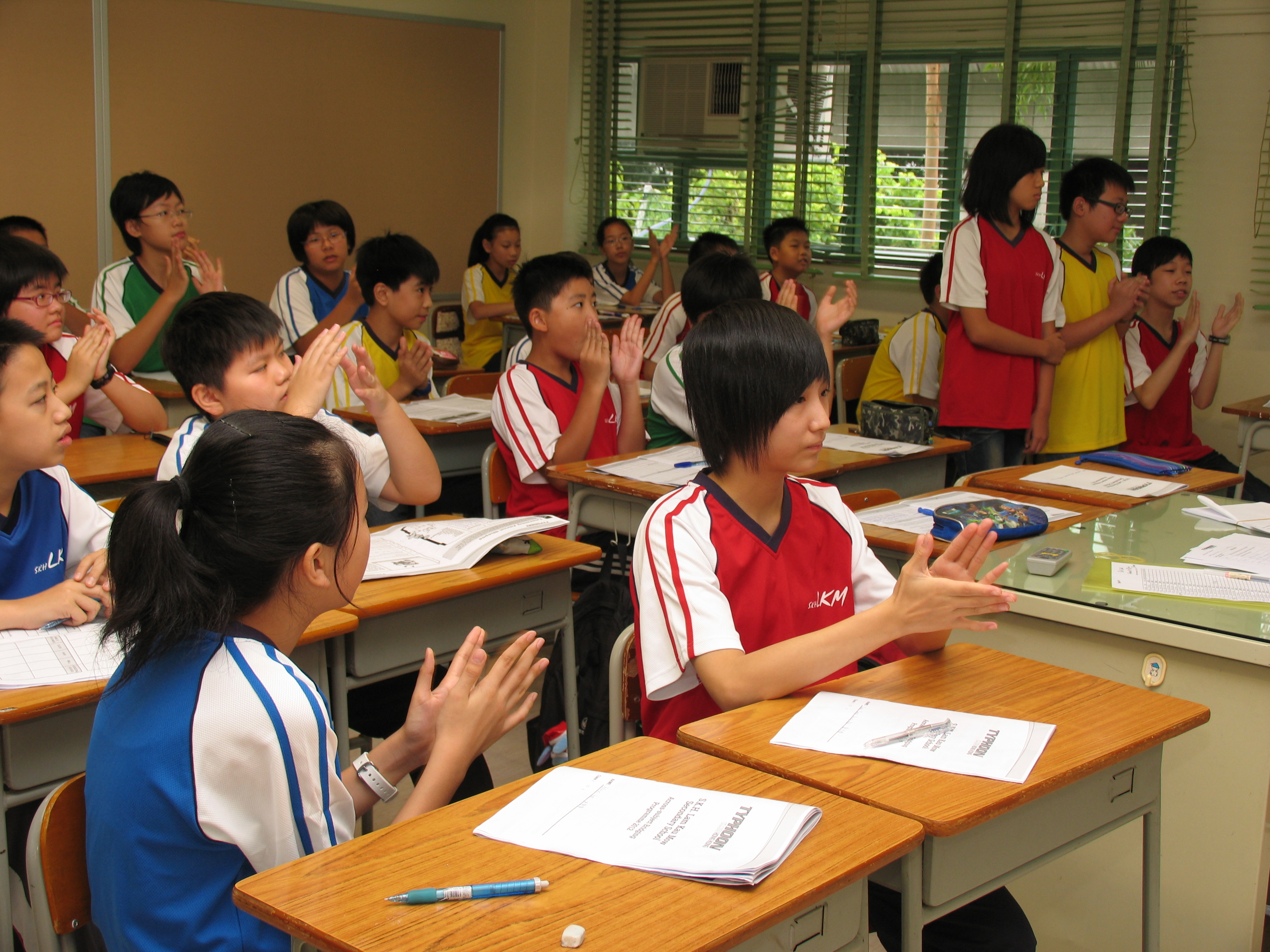 Students participate in a Typhoon Club Magazine Writing Course where their own writing is produced in a professionally produced magazine format.